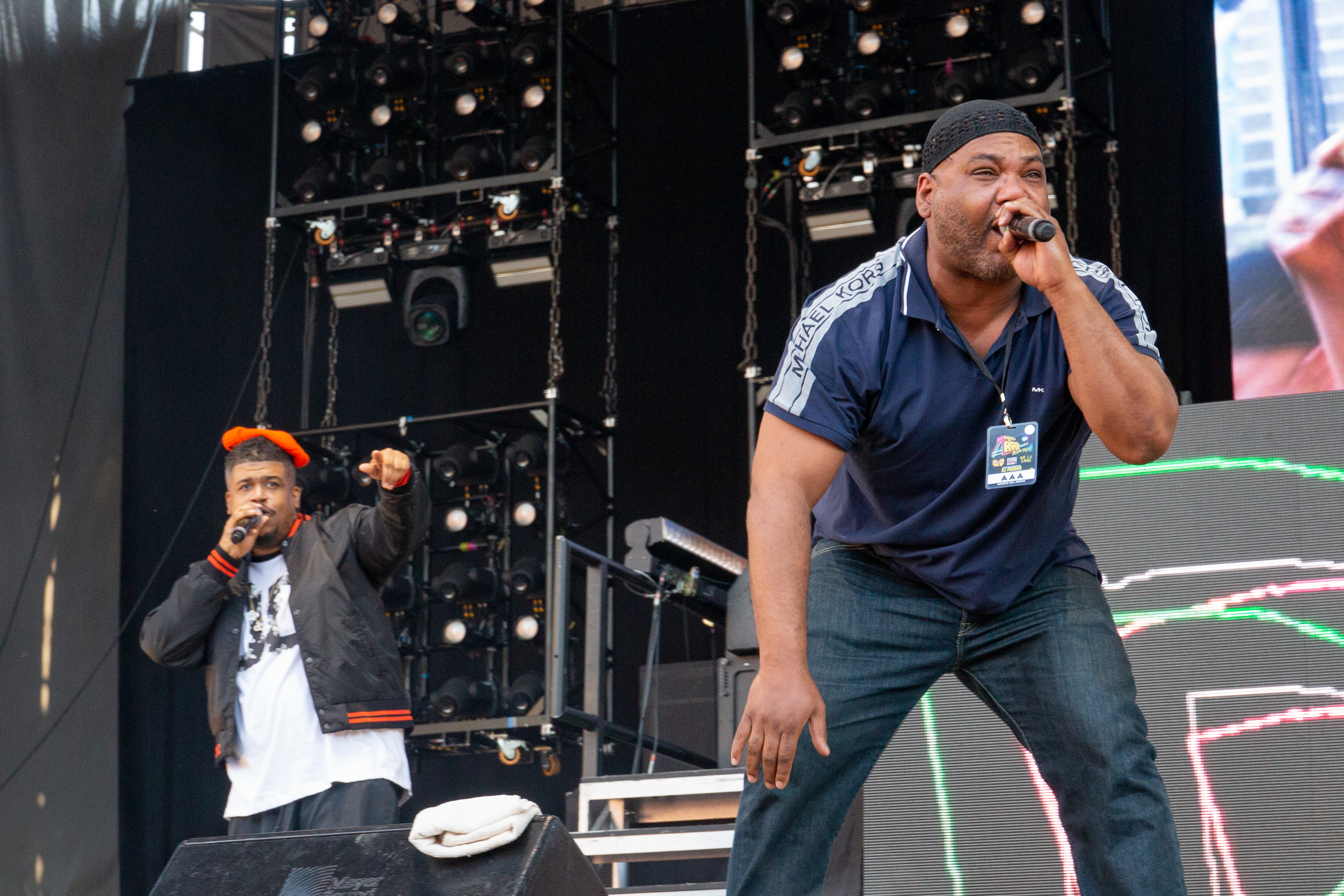 David Jude Jolicoeur aka Dave and Vincent Mason aka Maseo of De La Soul at Gods of Rap 2019 in Berlin, Germany - Parkbühne Wuhlheide